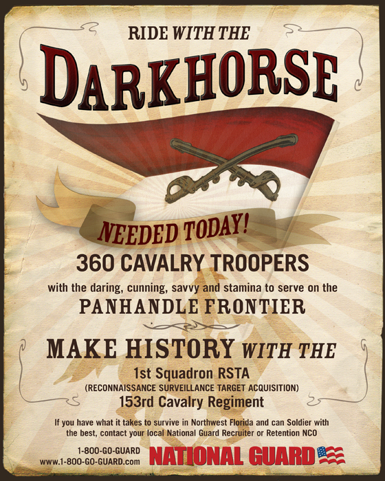 Recruitment poster from 2008 for the 1st Squadron, 153rd Cavalry, Florida Army National Guard